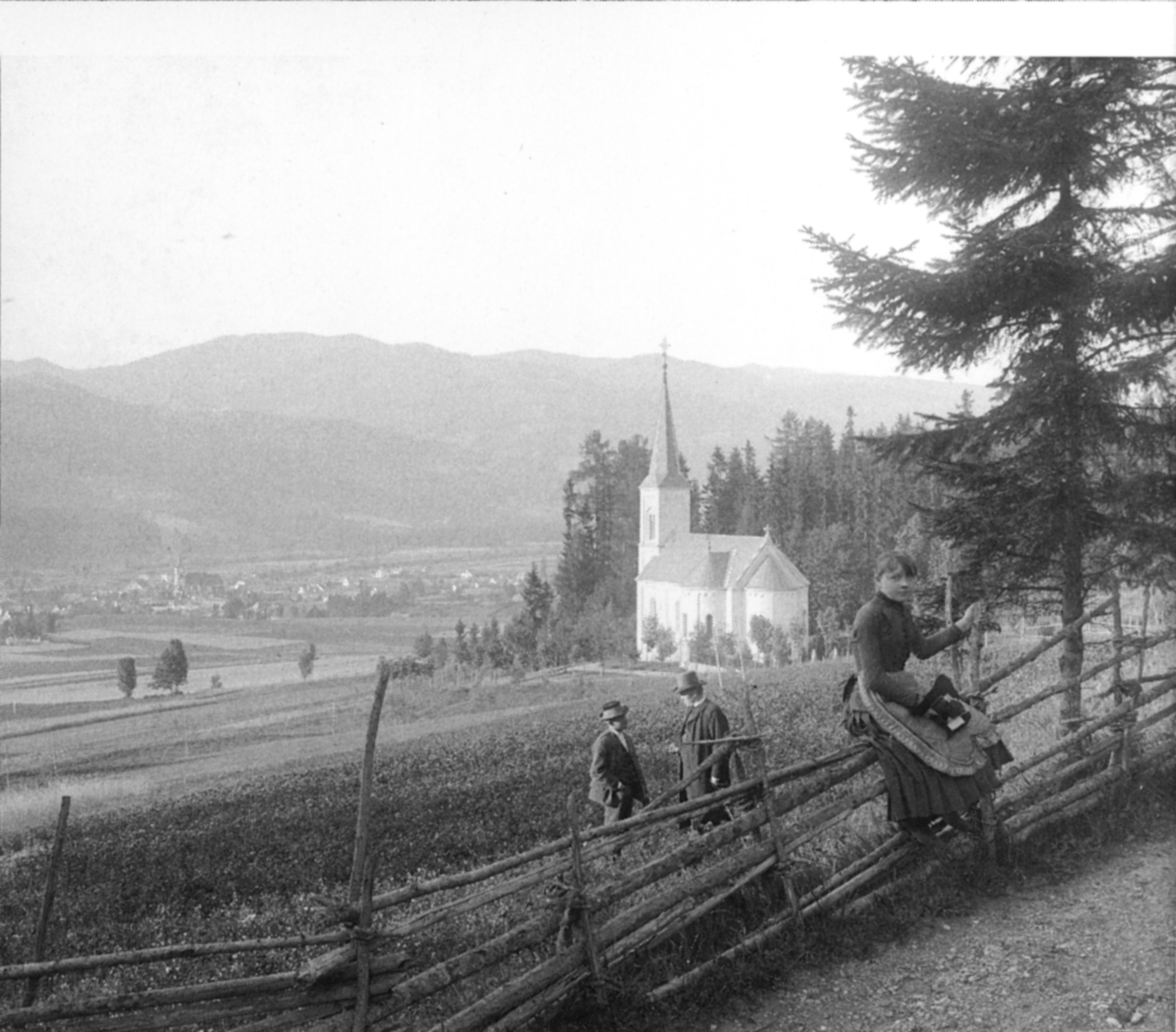 Petschar, Friedlmeier, Steiermark in alten Fotografien, Ueberreuther Verlag Wien. Scanprojekt Community Projektbudget 2012 This scan or this PDF-file was created within the GLAM-project Bookscanning, supported by Wikimedia Germany and Wikimedia Austria as a part of the community-project to capture books, documents and pictures which are not eligible to copyright or for which the copyright has expired. This document describes or depicts an object which is located in Austria today. Texts are written German language. Send requests for uncompressed scans to Hubertl. This work is in the public domain in its country of origin and other countries and areas where the copyright term is the author's life plus 100 years or less. You must also include a United States public domain tag to indicate why this work is in the public domain in the United States. This file has been identified as being free of known restrictions under copyright law, including all related and neighboring rights.